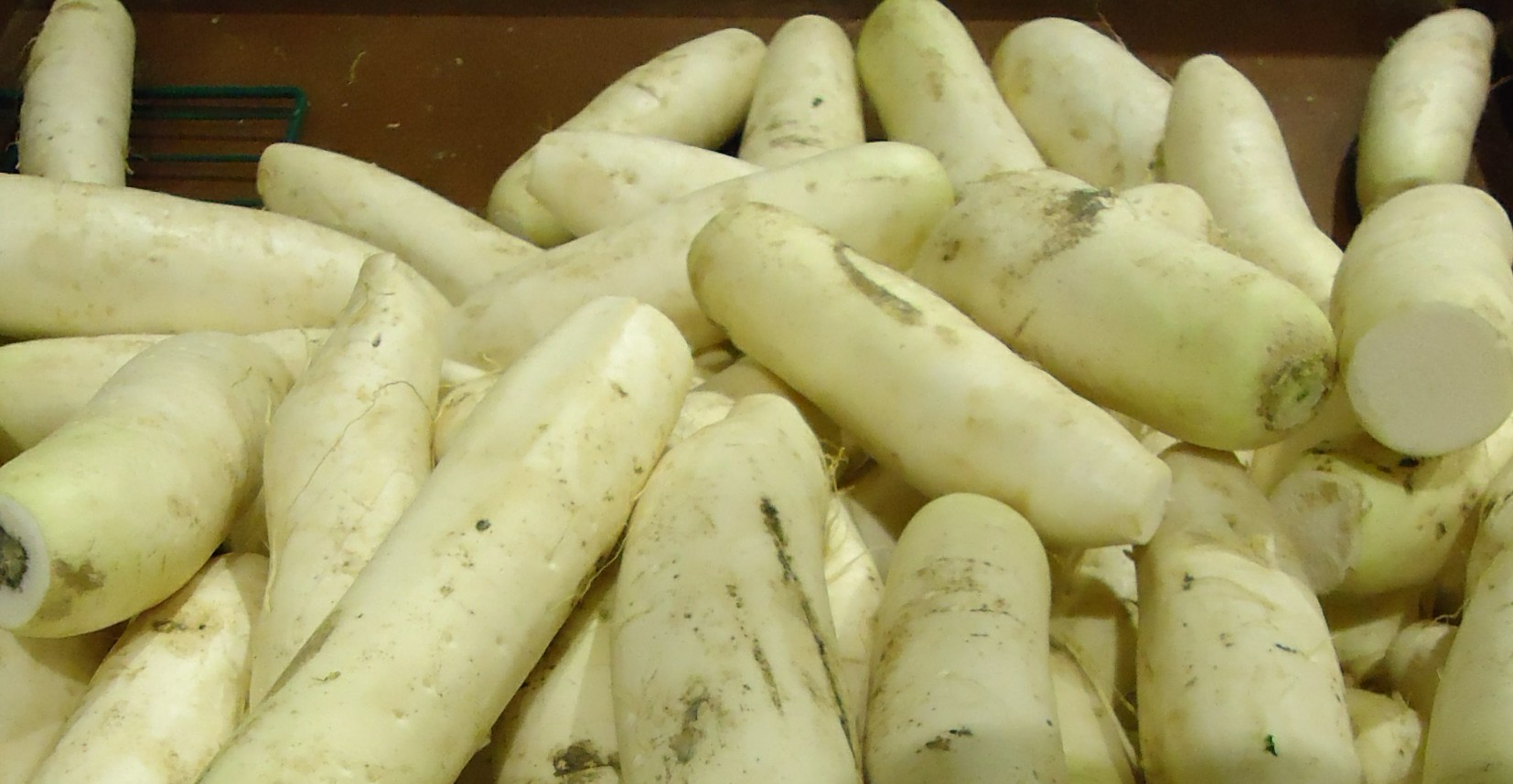 Chinese radishes as seen in an Asian supermarket in New Jersey.